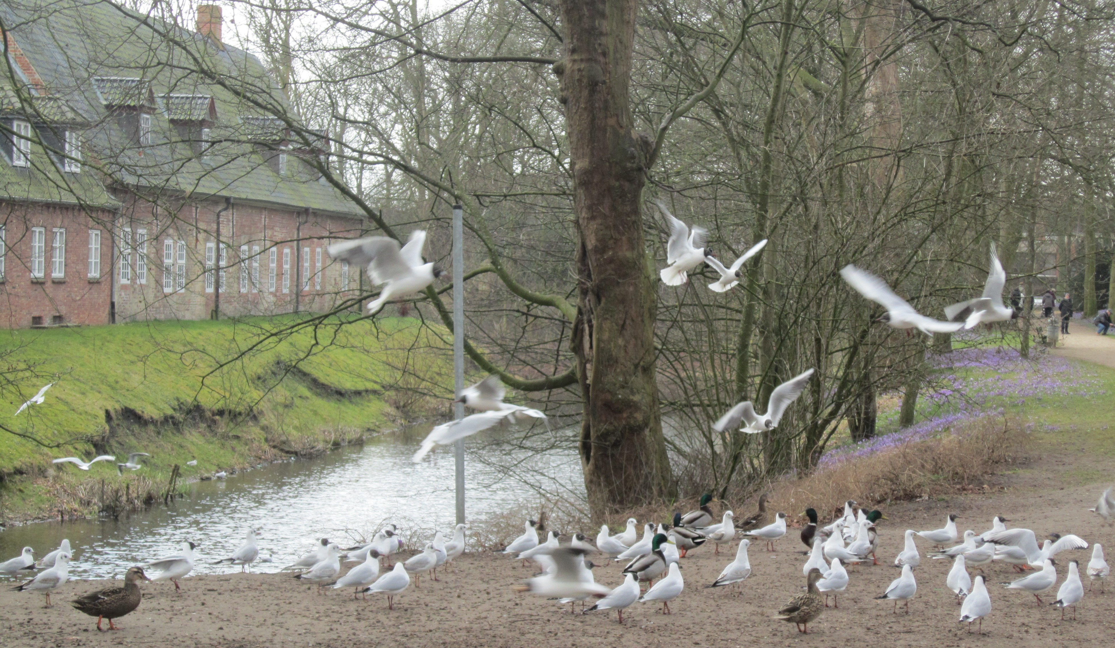 Various birds at Husum Castle